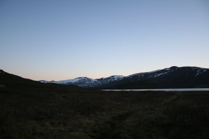 Sight from Øvre Sjodalvann, Vågå, Norway